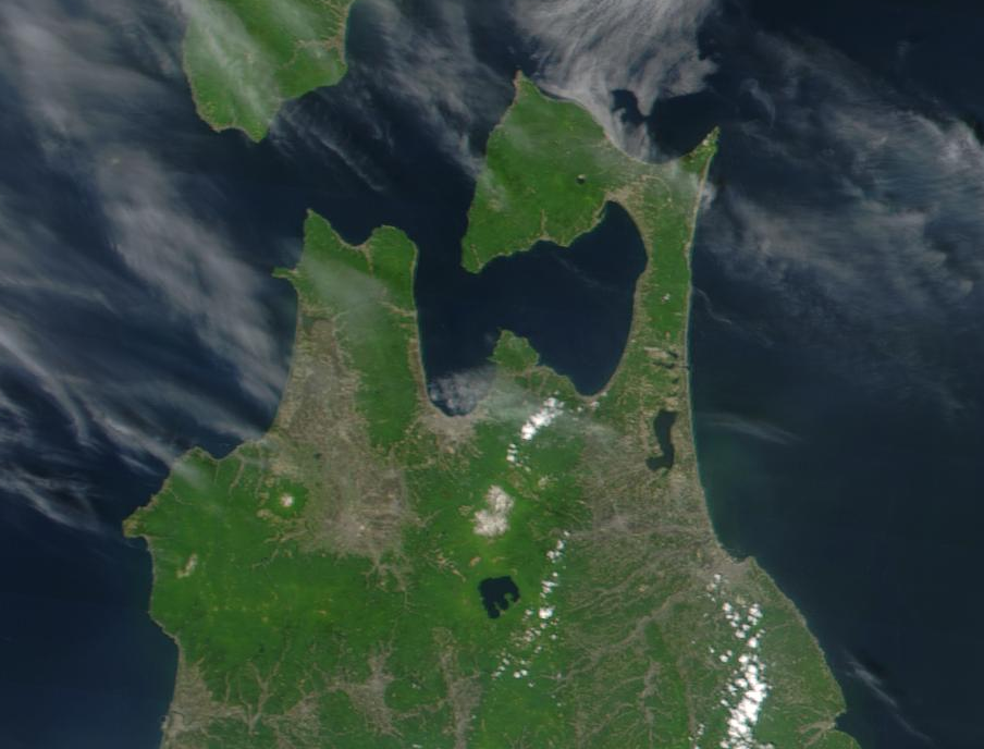 Satellite image of Aomori, Japan in May 2001. Taken from NASA's Visible Earth This MODIS true-color image shows Aomori, Japan